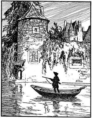 Illustration by Otto Ubbelohde to the fairy tale The Skillful Huntsman